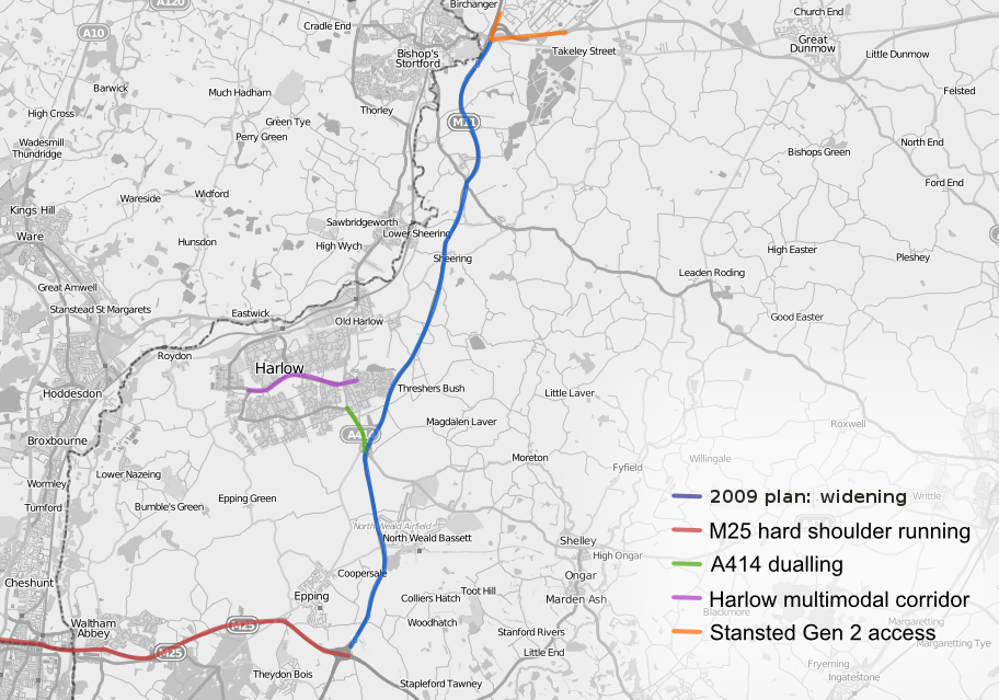 A map showing the 2009 proposal for widening of the M11 and surrounding road proposals.